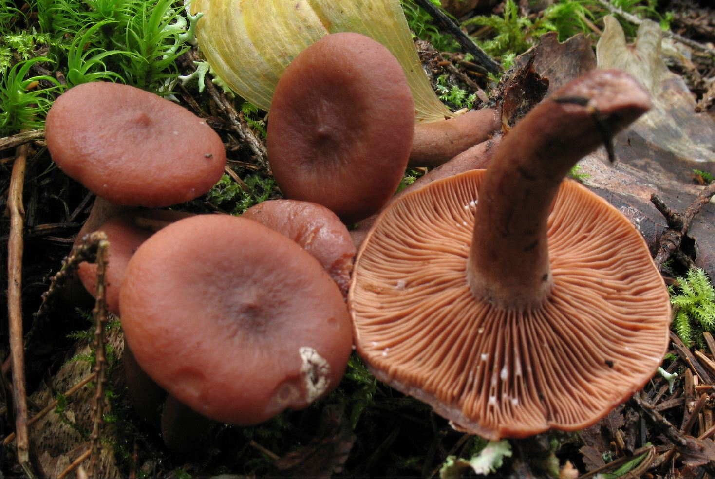 Image location: Degerberget, Hörnefors, Västerbotten, Sweden; Recognized by sight: Growing in old coniferous forest, strong smell of curry